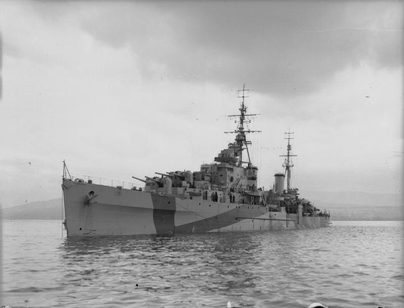 Photograph of British light cruiser HMS Bellona moored.